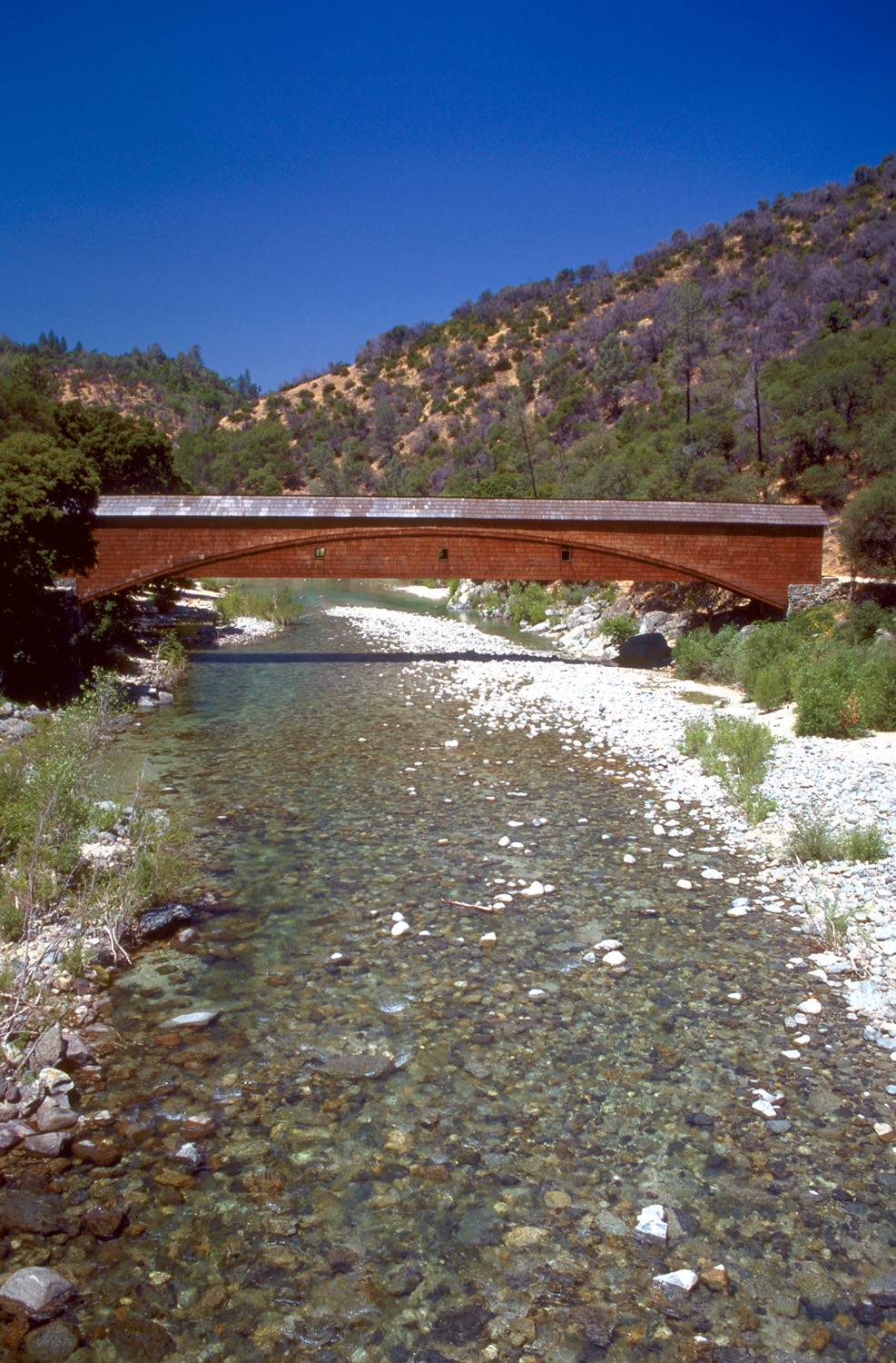 The Bridgeport Covered Bridge on the South Fork Yuba River in South Yuba River State Park in Nevada County, California, USA. The bridge here was originally constructed in 1862 and was part of the Virginia Turnpike Company Toll Road that served the northern mines and traffic to and from Virginia City and the Comstock Lode in Nevada. The bridge is 230 feet (70 m) long.